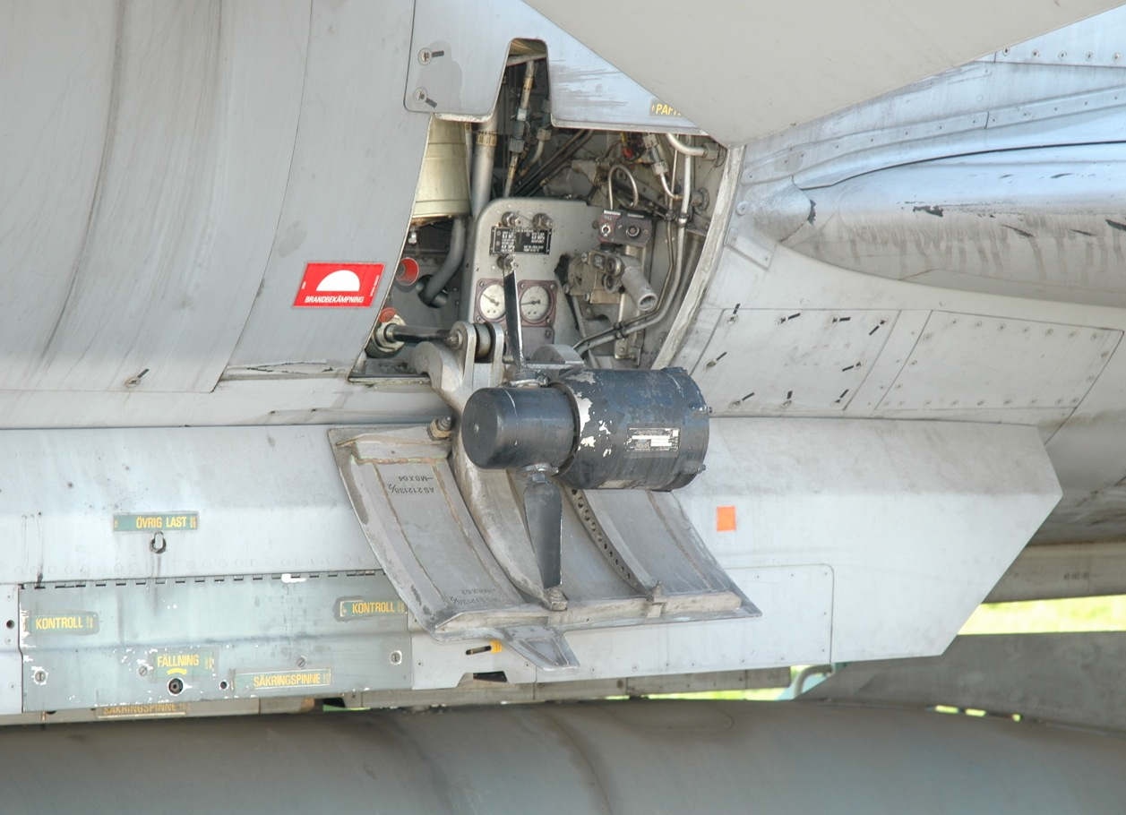 Ram air turbine (RAT) on Saab AJSF 37 Viggen, in released position (Polish Aviation Museum, Cracow, Poland)